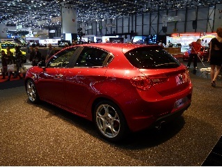 alfa roméo giulietta salon genève 2010